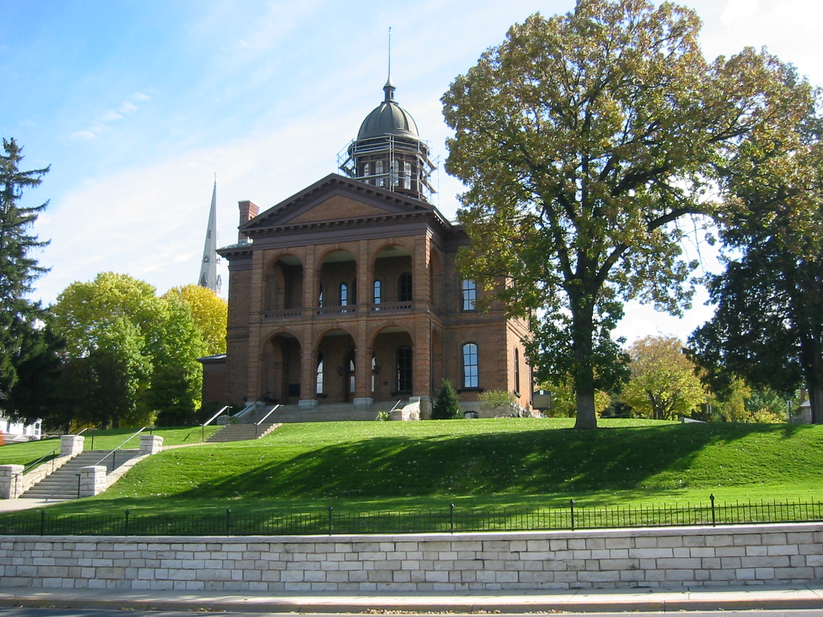 Washington County Courthouse (Minnesota) in Stillwater, Minnesota